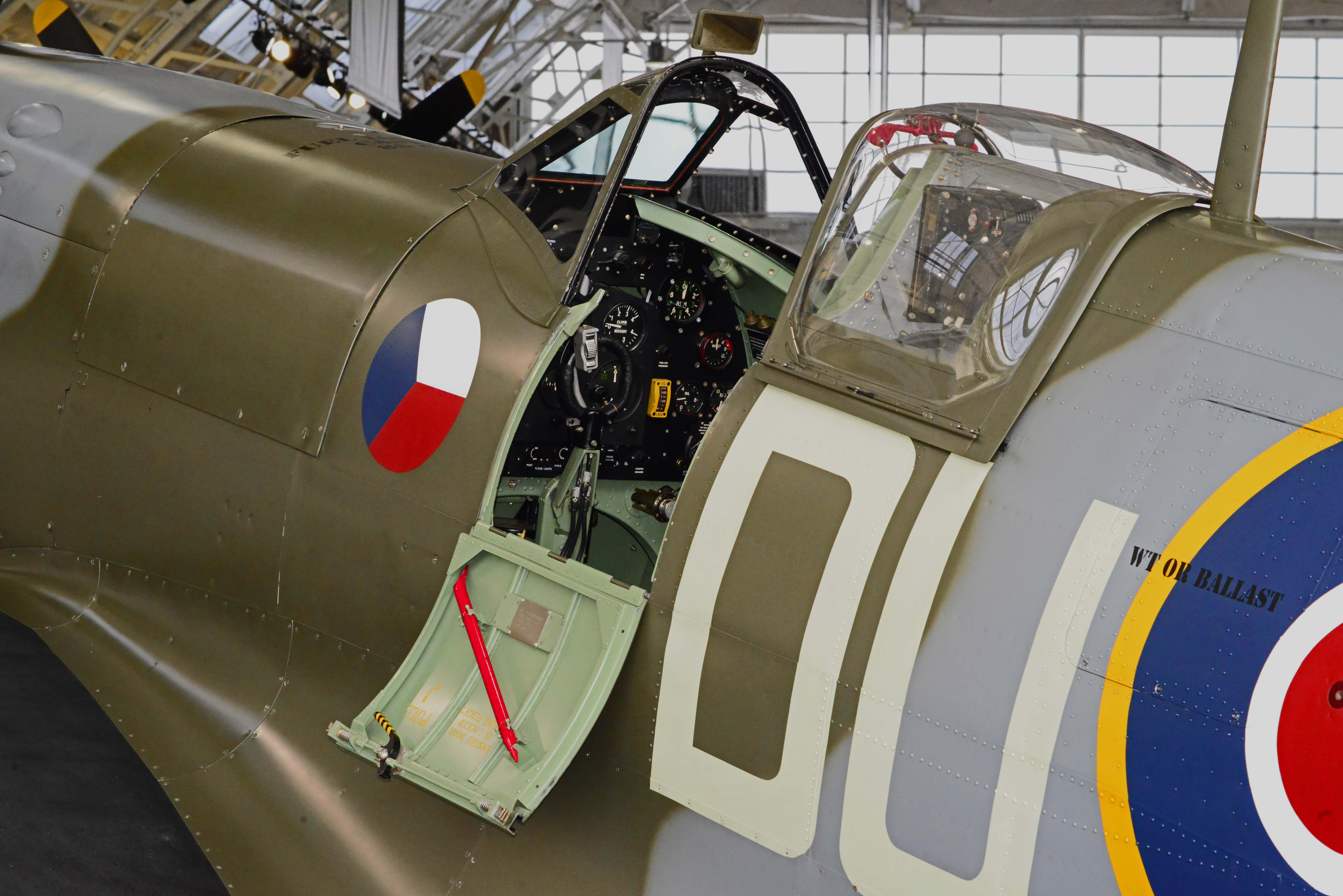 Garrison purchased AR614 from British MOD in 1963 for personal collection. Now in Paul Allen collection